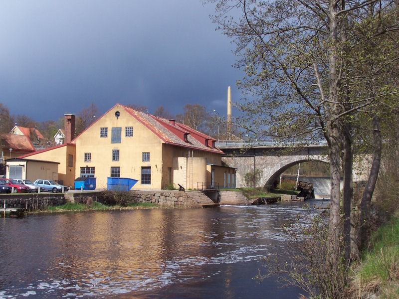 Kronokvarnen, Lyckeby (one of the buildings in the World Heritage Naval City of Karlskrona).